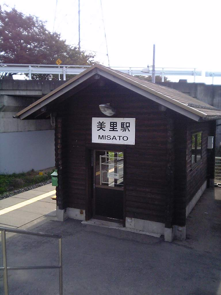 Misato Station in Komoro, Nagano, Japan